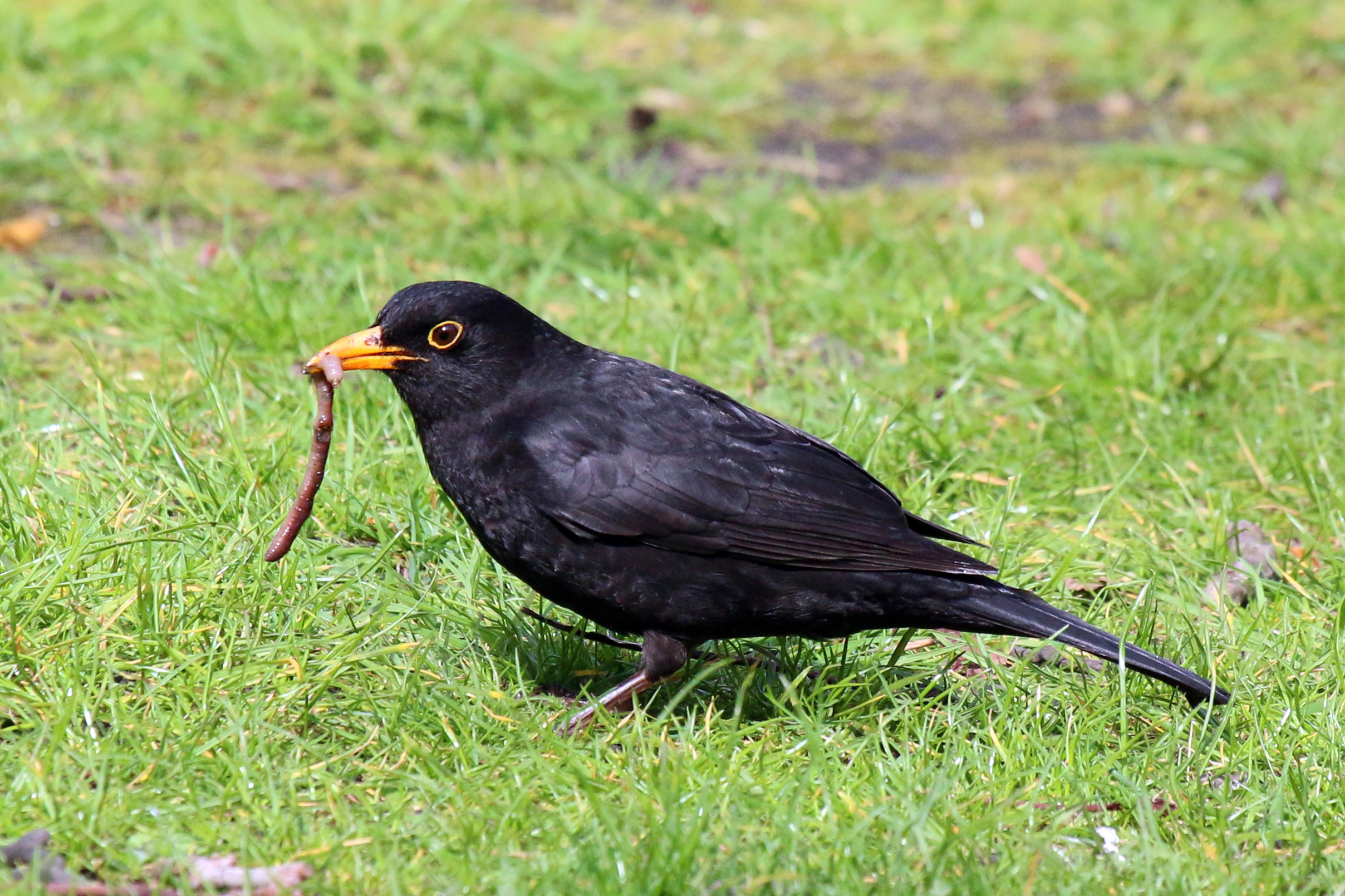 An adult male Common Blackbird in Warwick Square, London. It has got a worm for food in its beak.